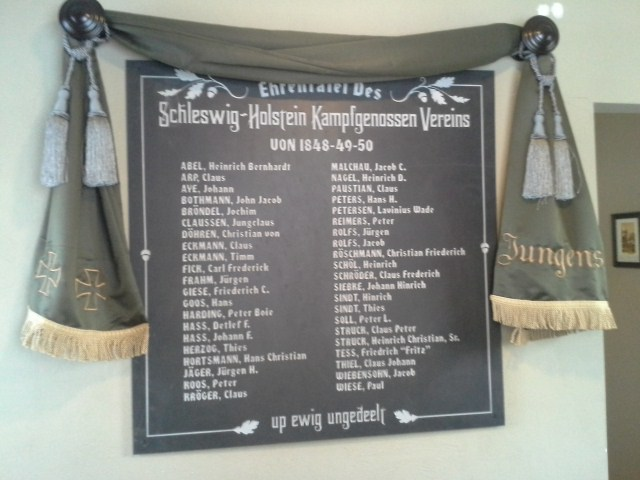 38 x 38 slate tablet located in the Sexton's cottage of the Davenport, IOWA "City" cemetery.